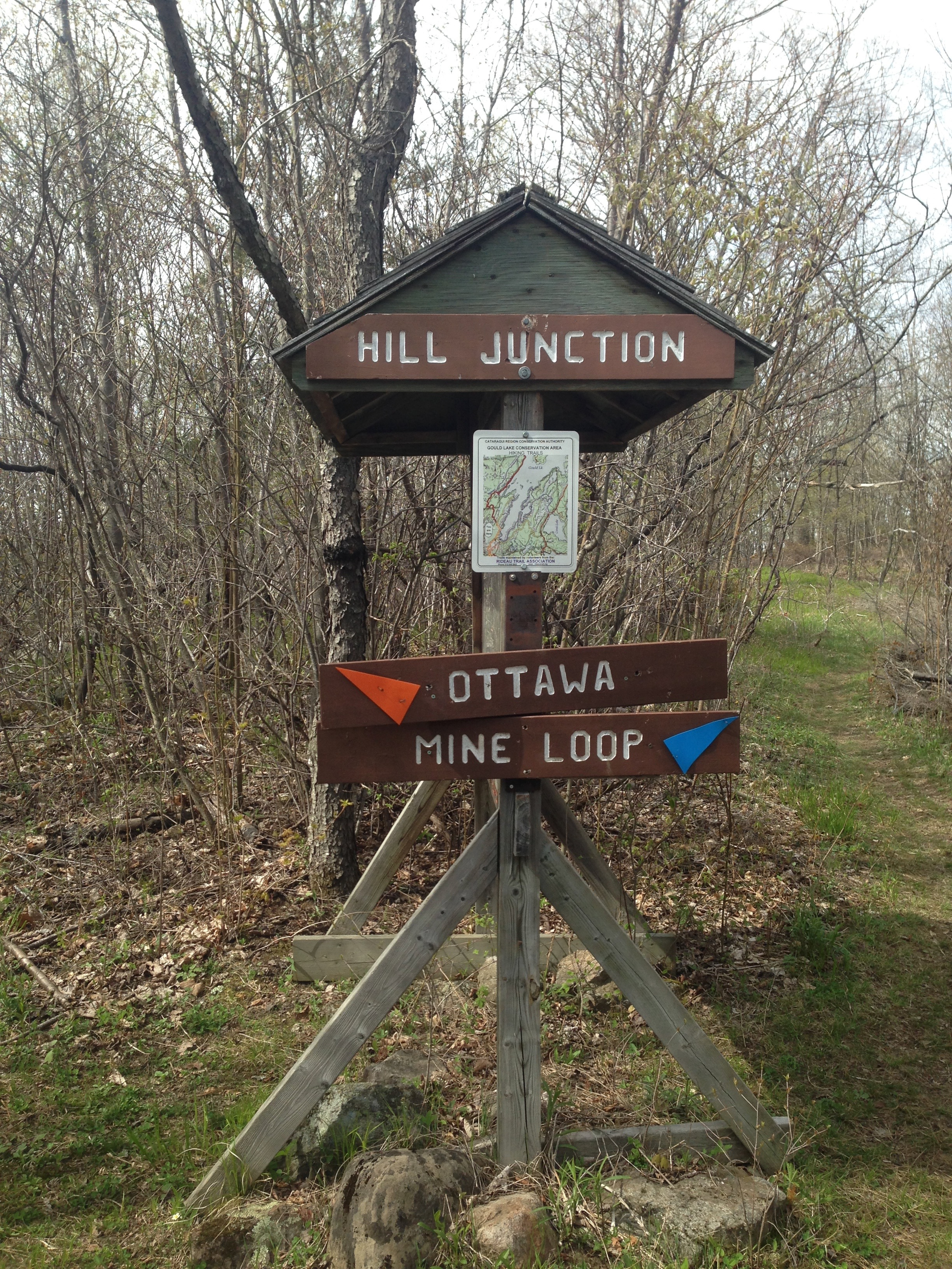 A junction of the Rideau Trail in Gould Lake Conservation Area showing a main trail marker (orange) and a side loop marker (blue)